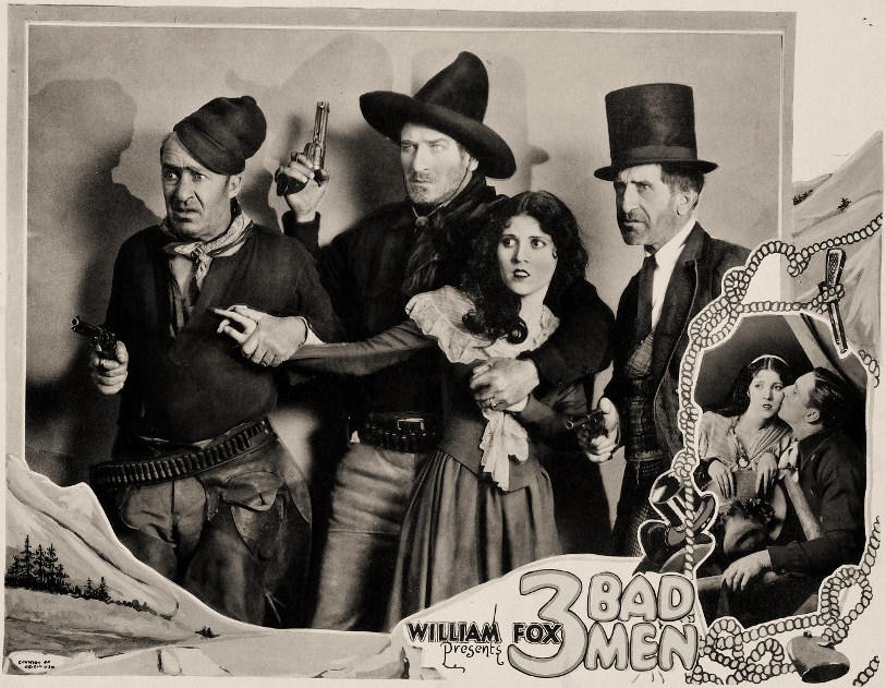 L. to R. : J. Farrell MacDonald, Tom Santschi, Olive Borden, Frank Campeau, and George O'Brien in 3 Bad Men - lobby card (cropped : see source)